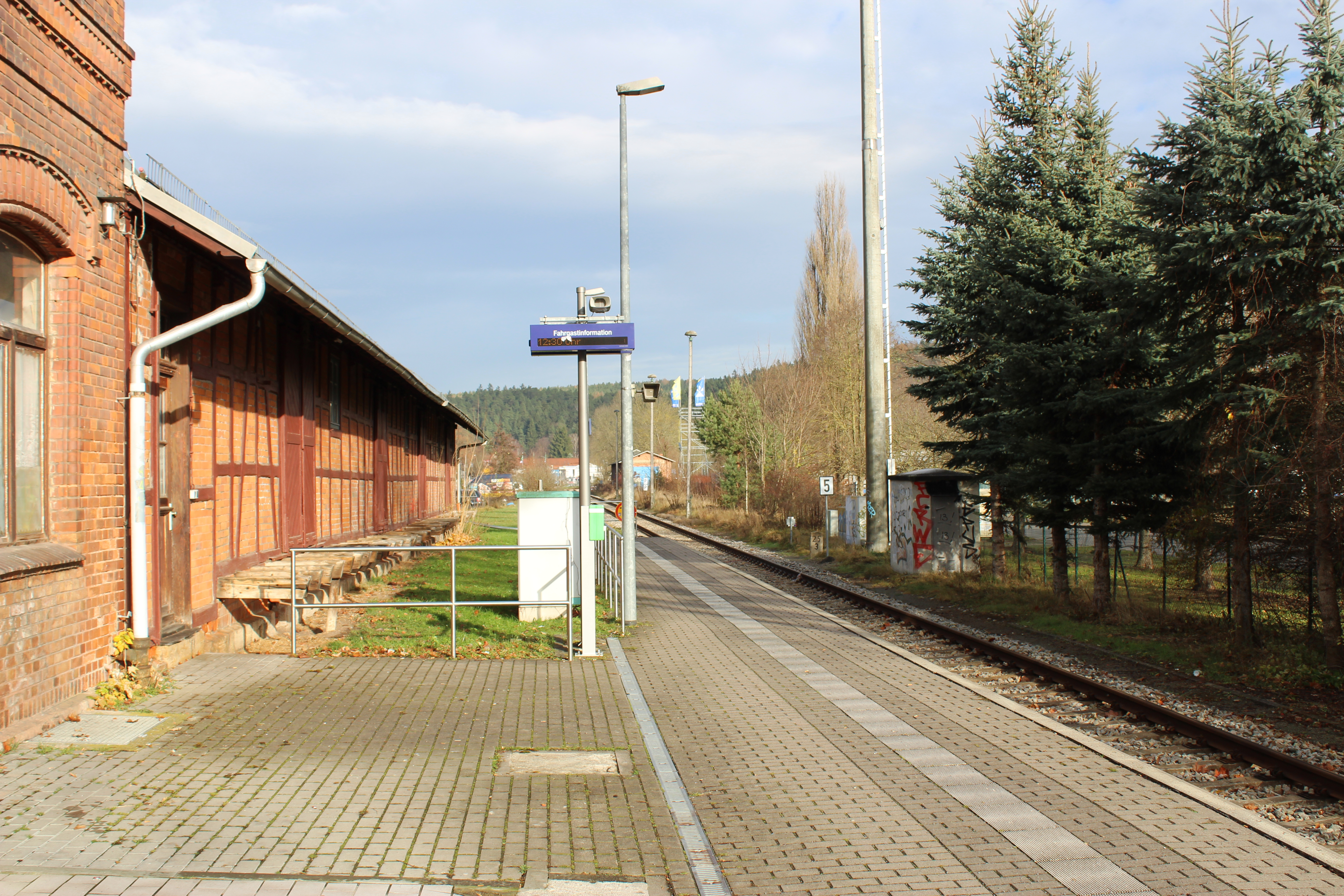 train station Kranichfeld, platform